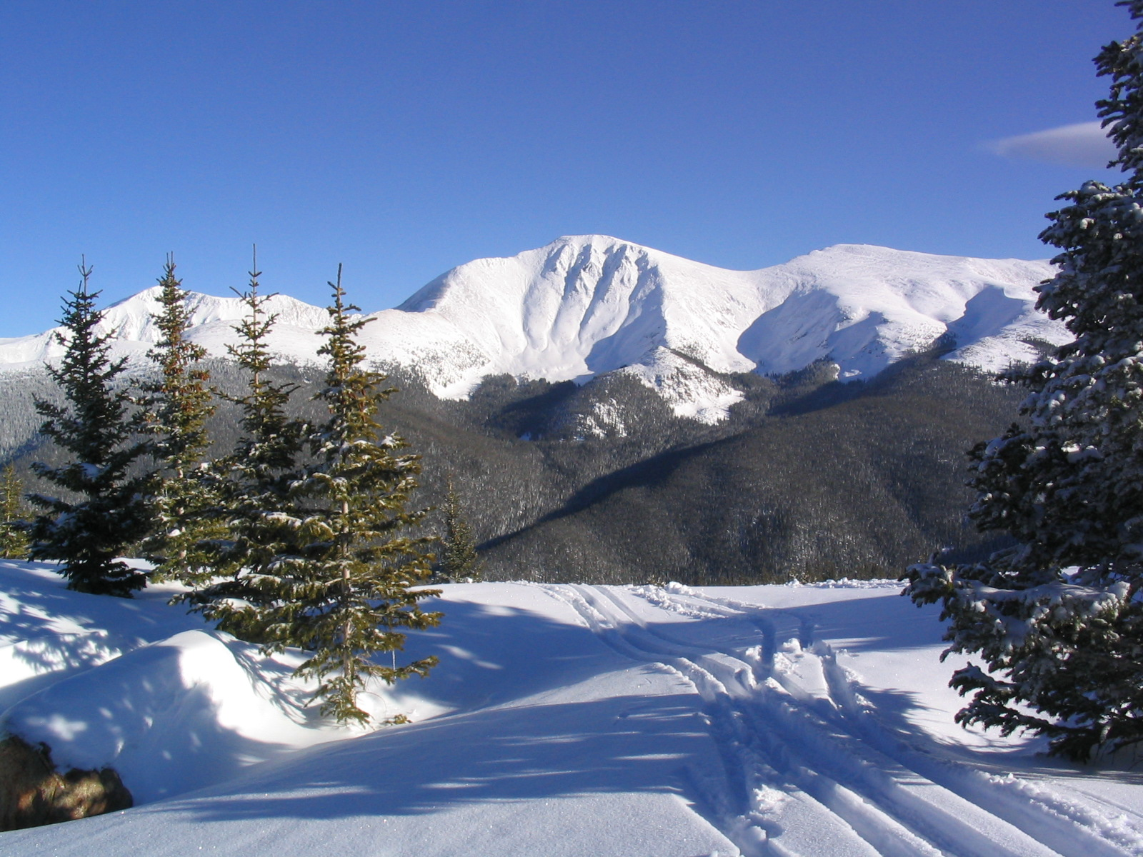 View looking east from near the top of the Mary Jane section of Winter Park Resort. Image taken by DebateLord on January 5, 2006.